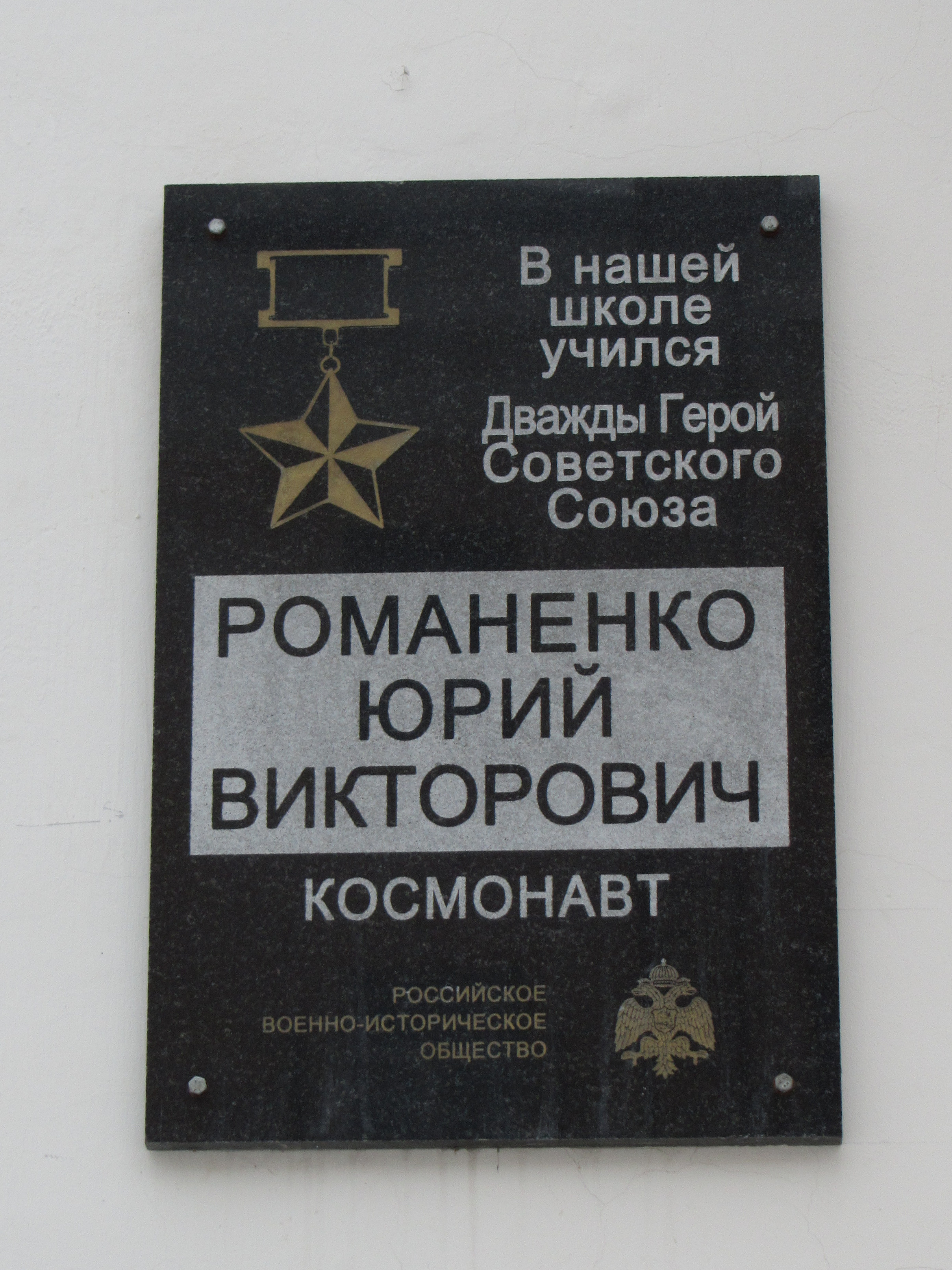 Severodvinsk school number 1